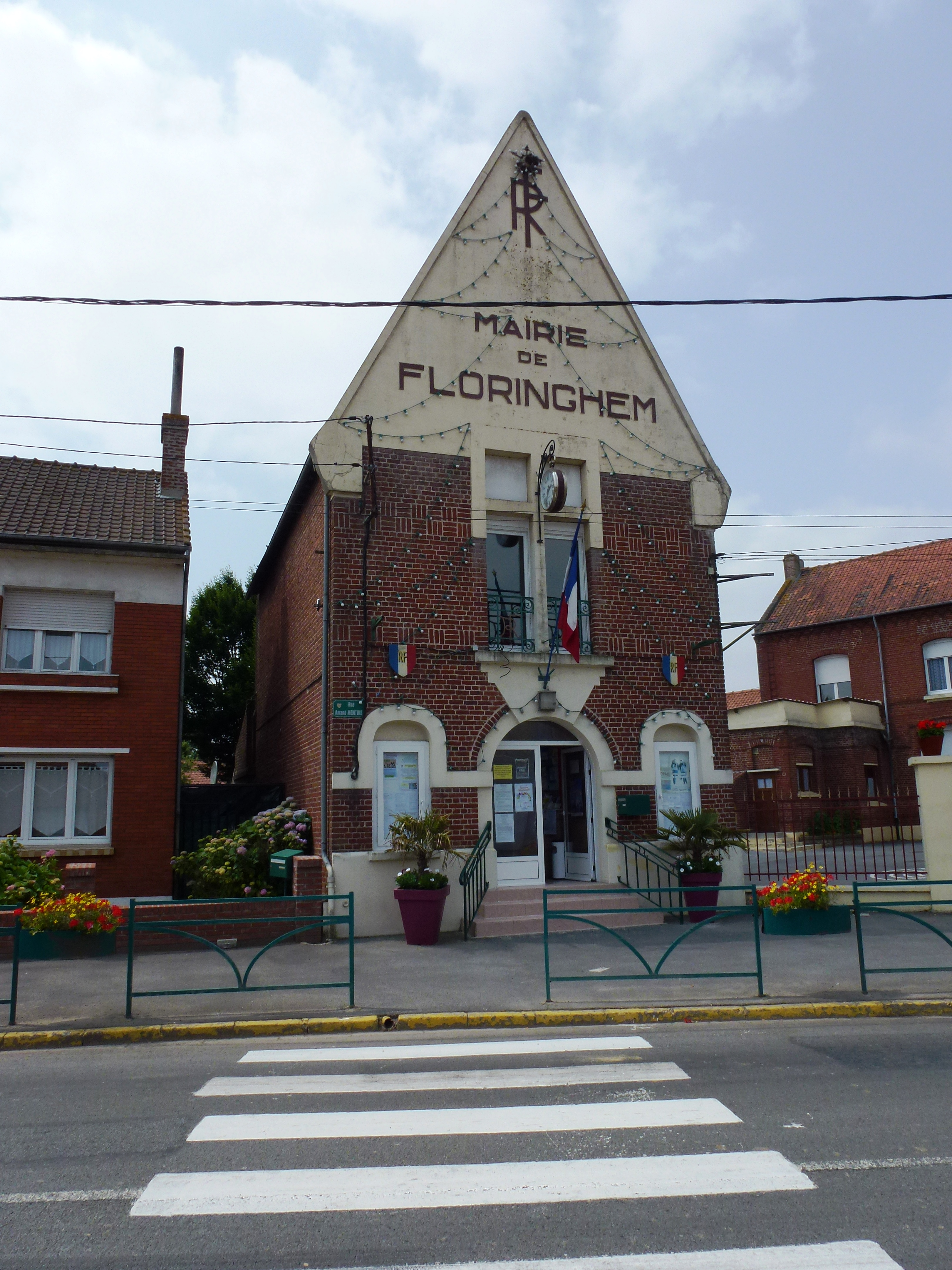 Floringhem (Pas-de-Calais, Fr) mairie